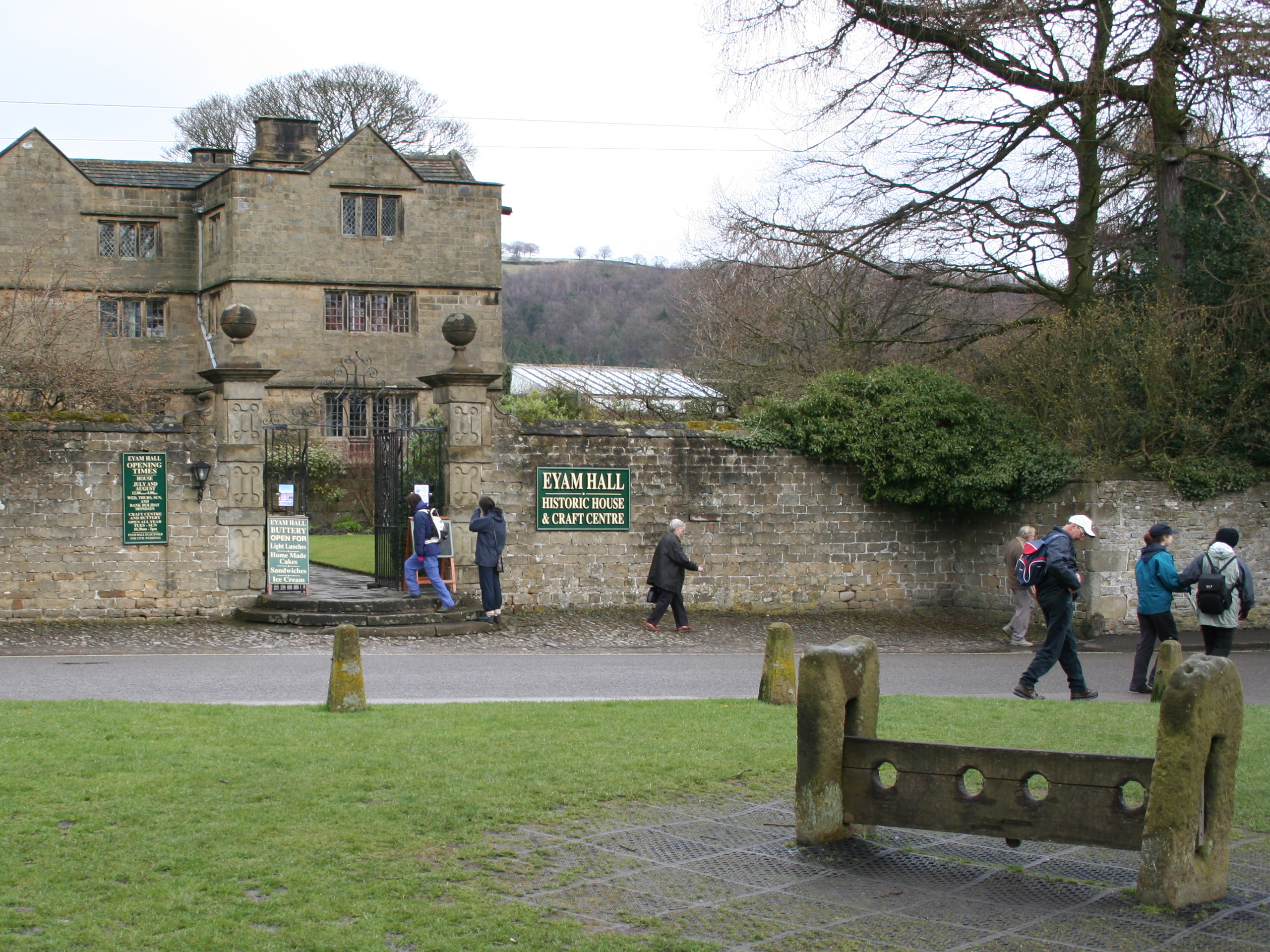 wEyam Hall, Derbyshire